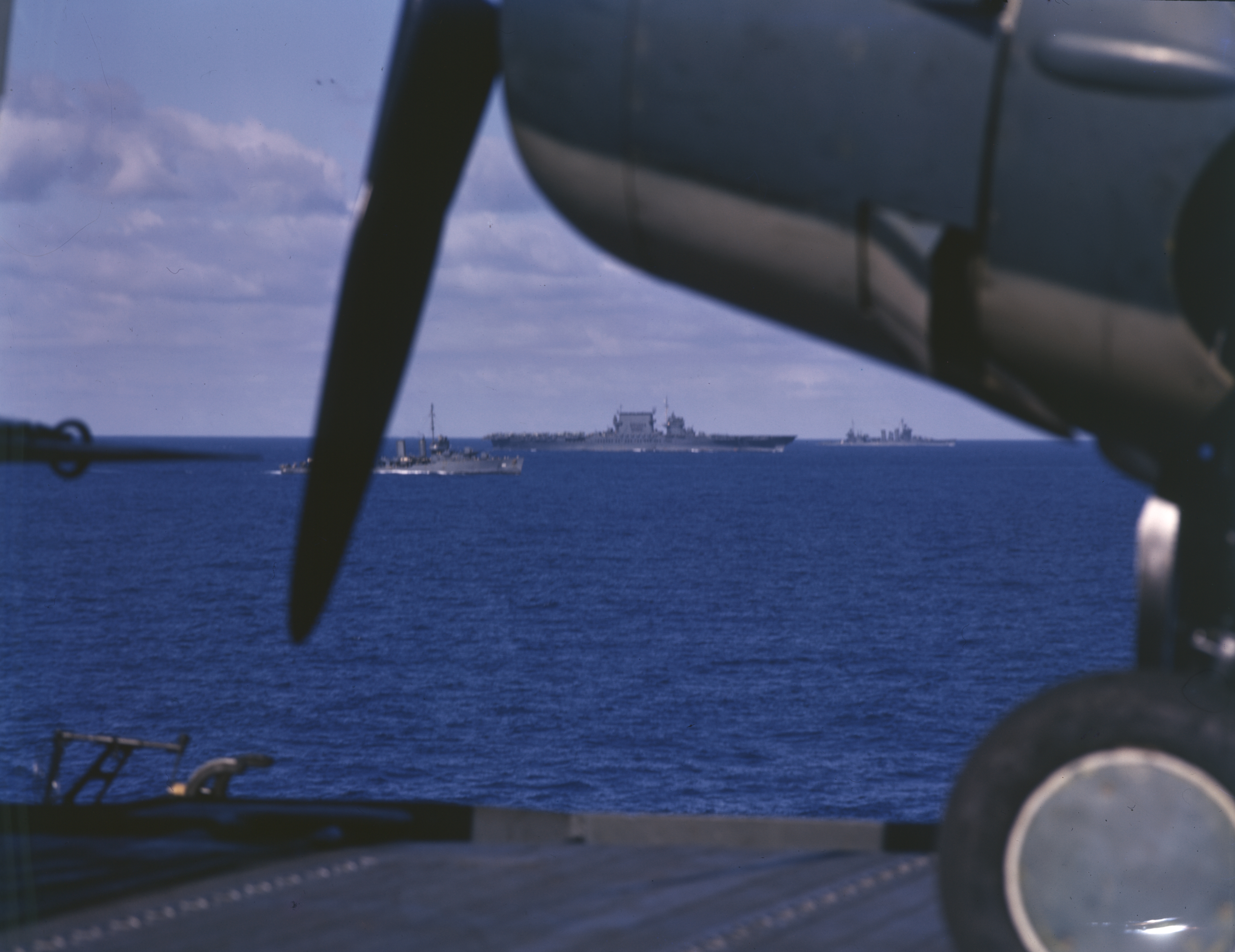 The U.S. navy aircraft carrier USS Saratoga (CV-3) probably shortly before the invasion of Guadalcanal in August 1942. A New Orleans-class heavy cruiser is steaming in the right background, a Farragut-class destroyer is to the left.